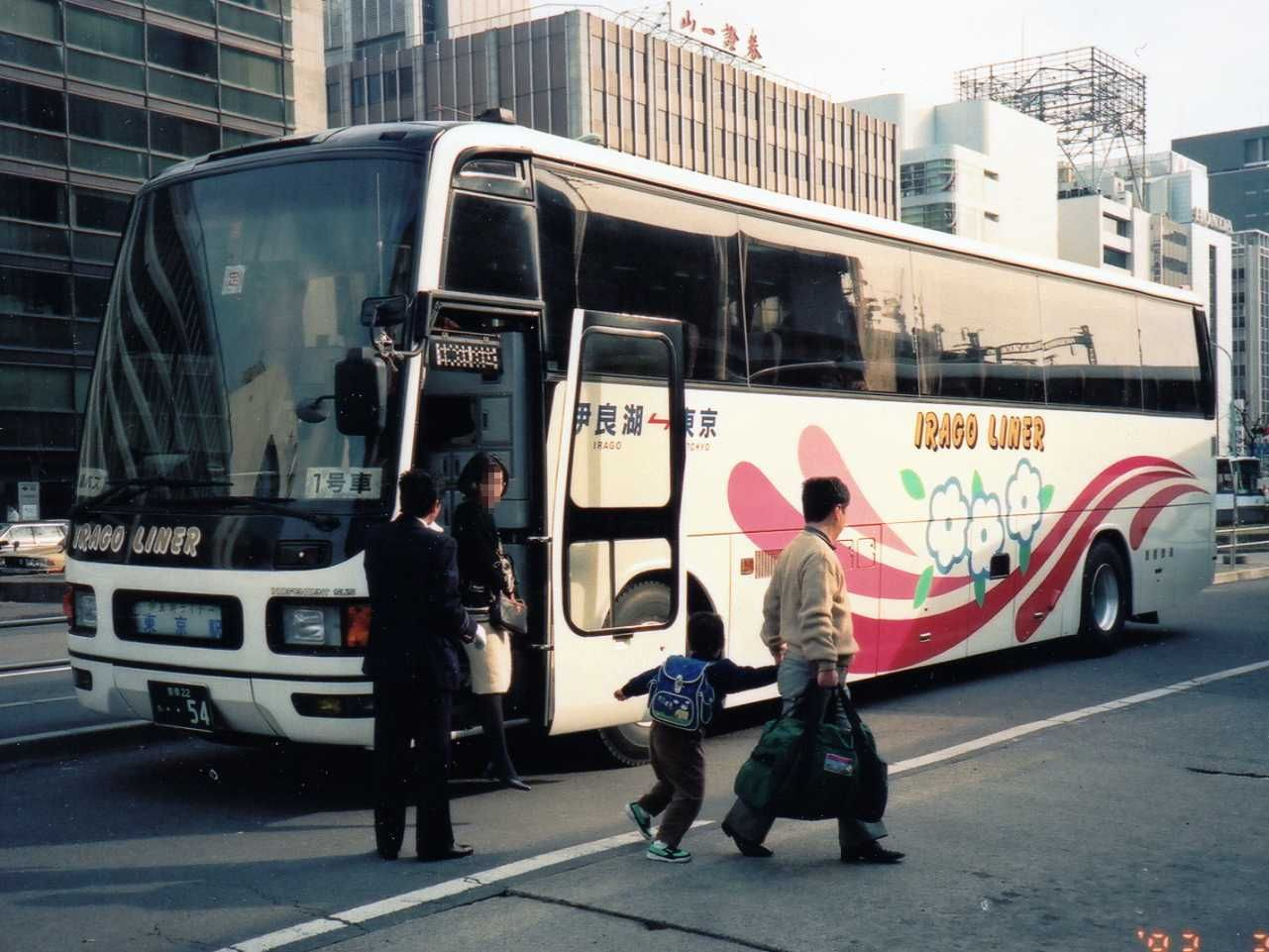 Toyohashi Railroad 201 "Irago Liner" Mitsubishi P-MS729SA at Tokyo Sta.